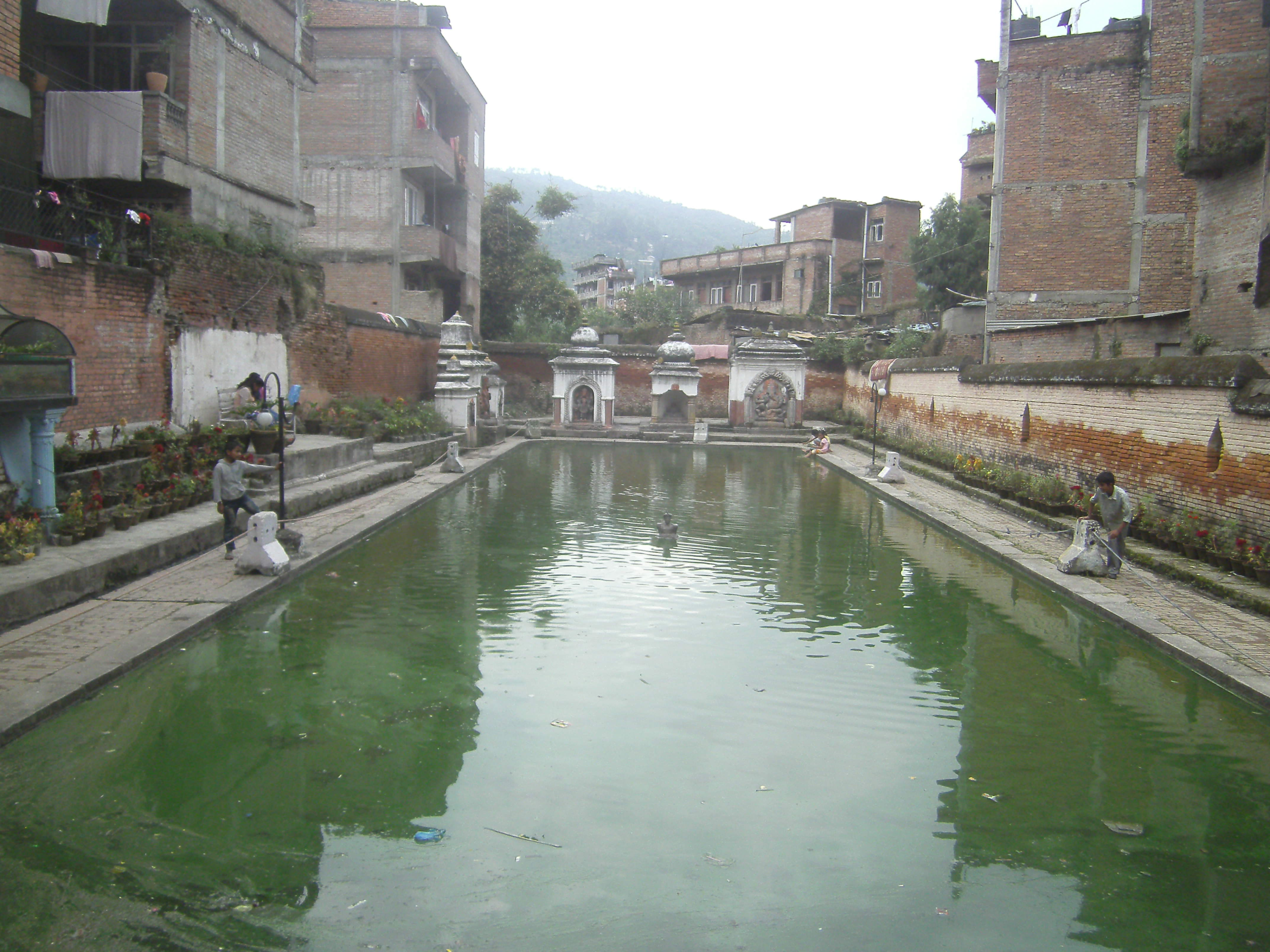 Dyo Pukhu. Pond banepa chandeswori marga west